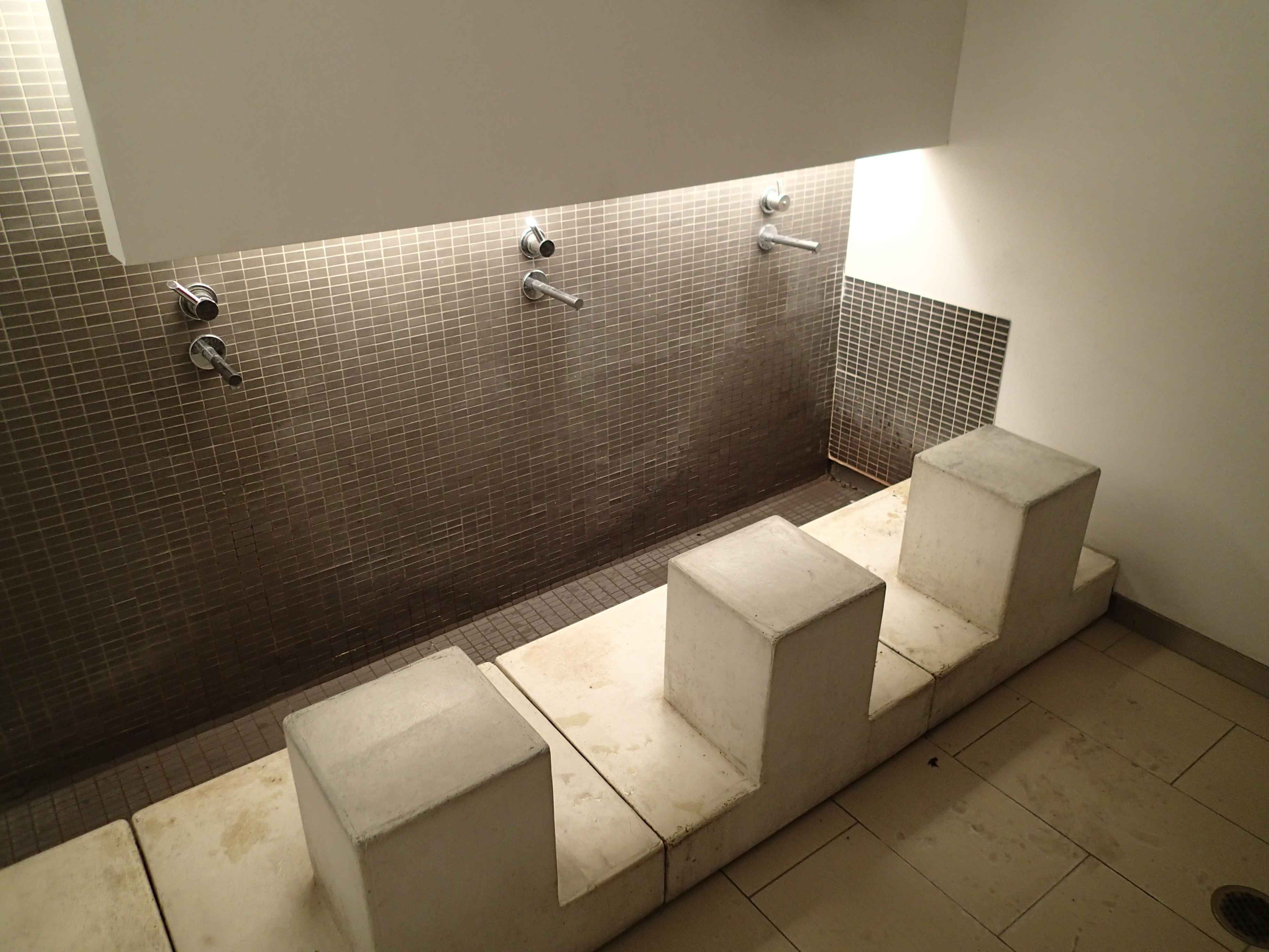 Male ablution area, 2nd floor of the University of Toronto's multifaith building.